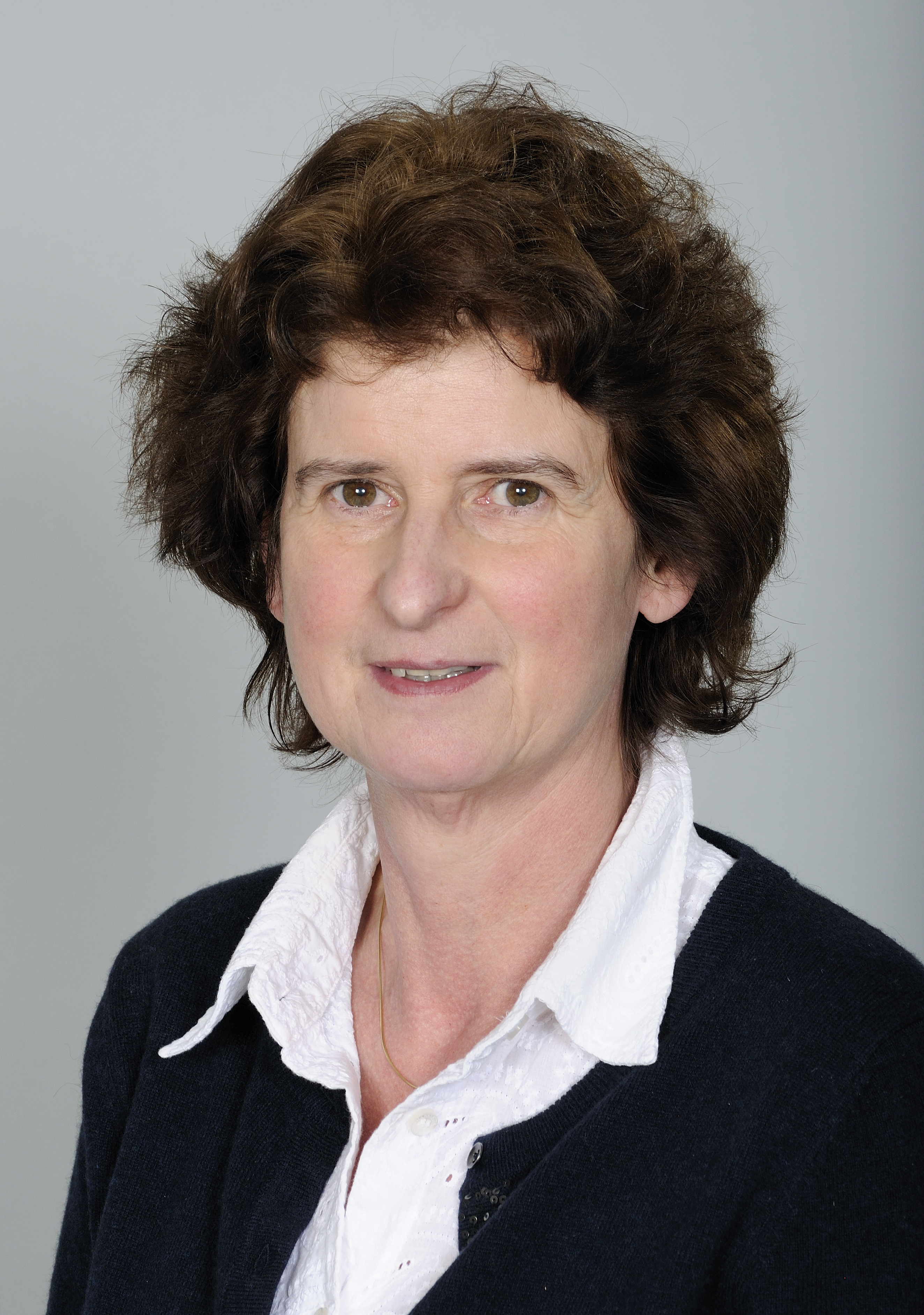 Eva-Maria Stange, Saxon politician (CDU) and member of the Landtag of the Free State of Saxony (as of 2013).